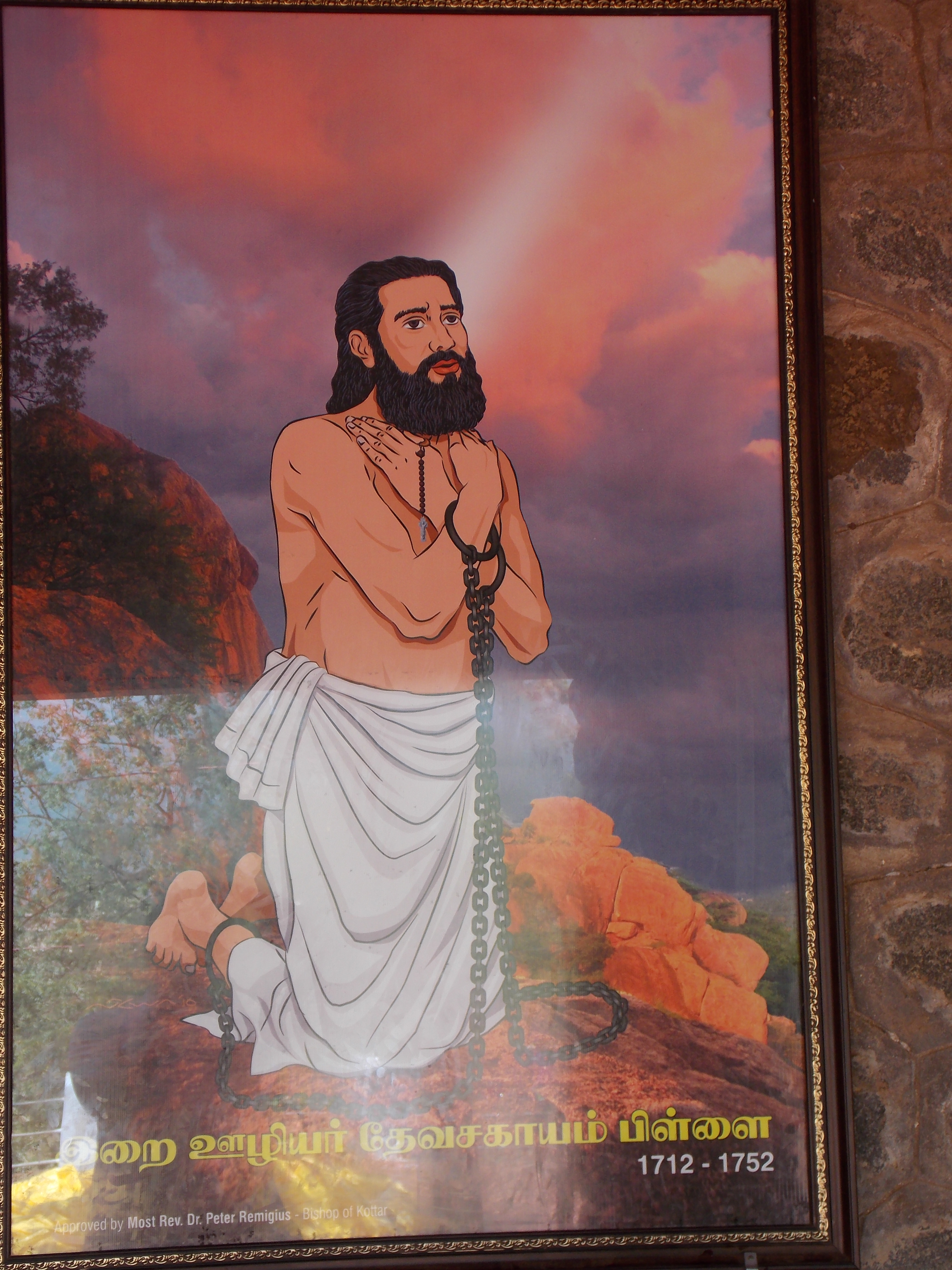 Picture of Blessed Devasahayam Pillai (1712–1752)